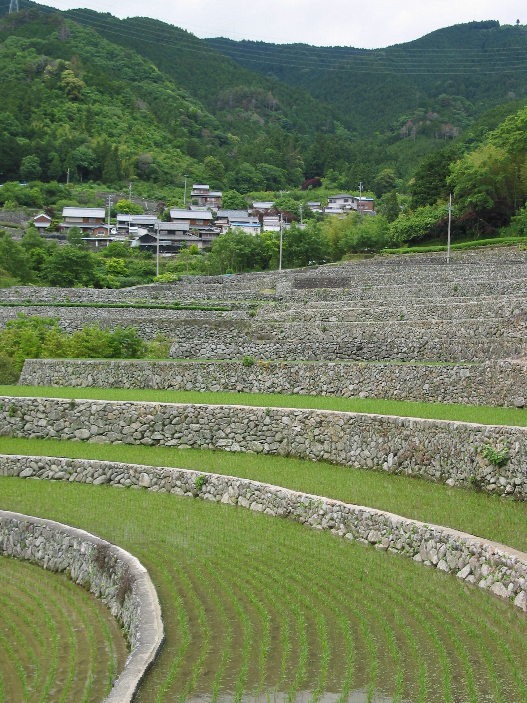 Rice Terrace at Fukano